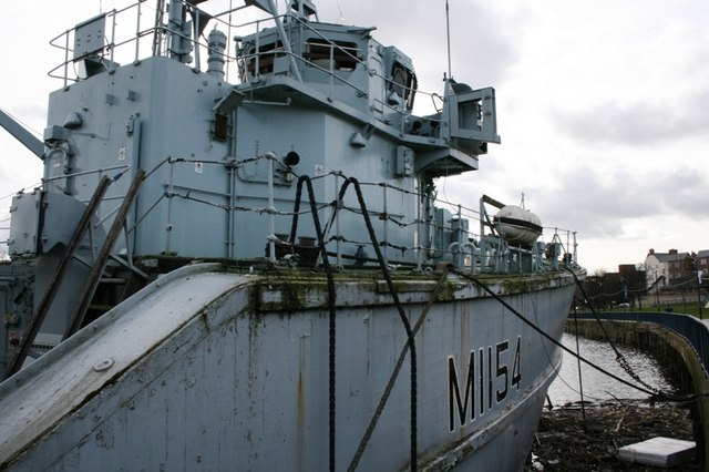 TS Kellington, River Tees. The Training Ship Kellington is a former minesweeper which was sold by the Navy to the local branch of the sea cadets in 1996 for £2,000 and has been permanently moored here on the Tees. The cadets must have thought they had a bargain. But caveat emptor, the ship has now been condemned as unsafe and is in real danger of sinking. Scrapping it will cost about £250,000 rising to £500,000 if it does sink. But nobody wants to pay for it. The cadets can't afford the amount involved and the MOD are denying responsibility.